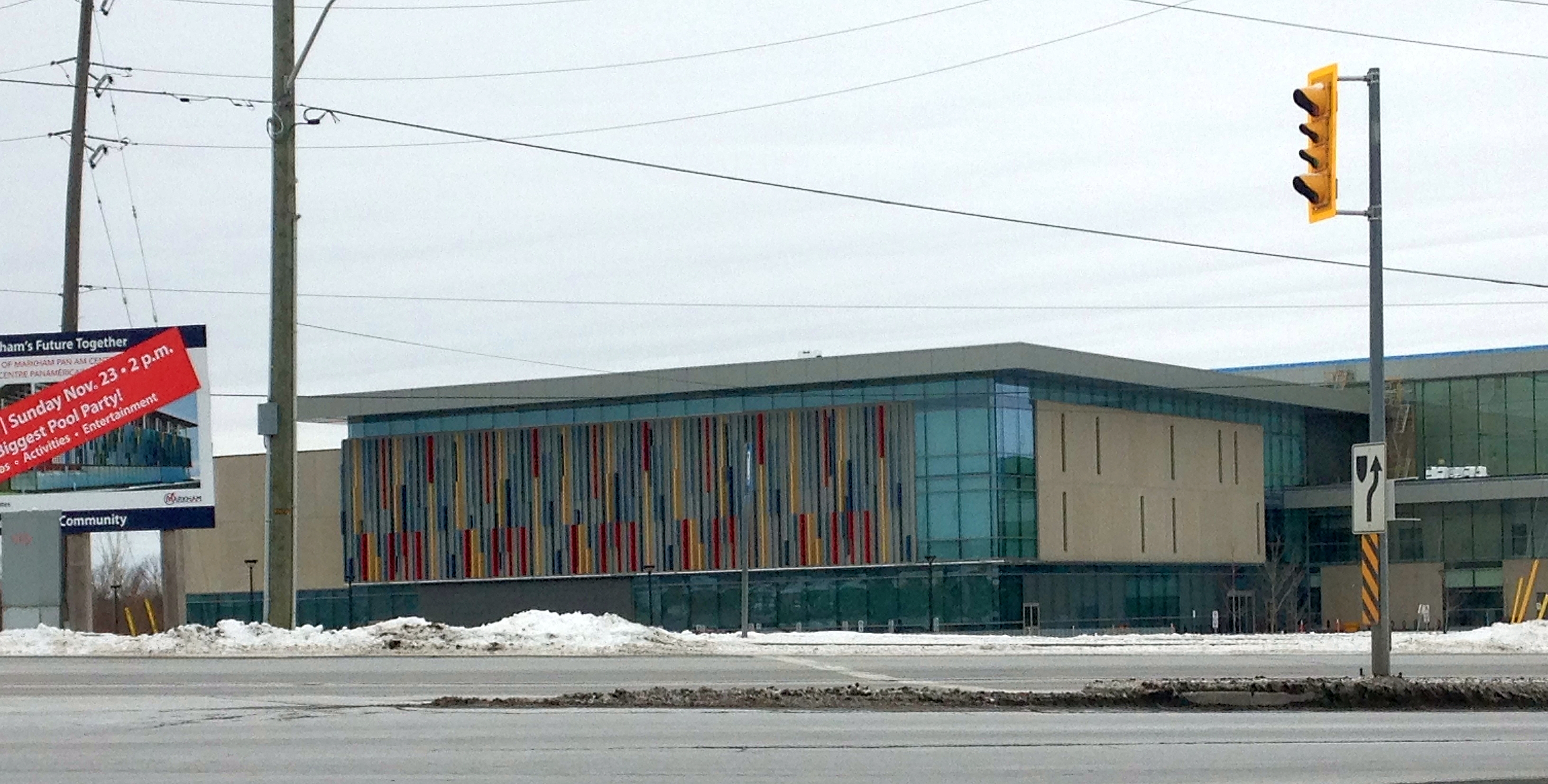 The Markham Pan Am Centre, almost finished construction in time for the 2015 Pan Am Games.